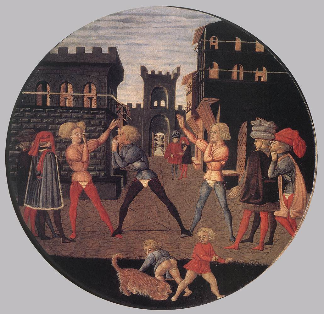 (a Birth Salver)